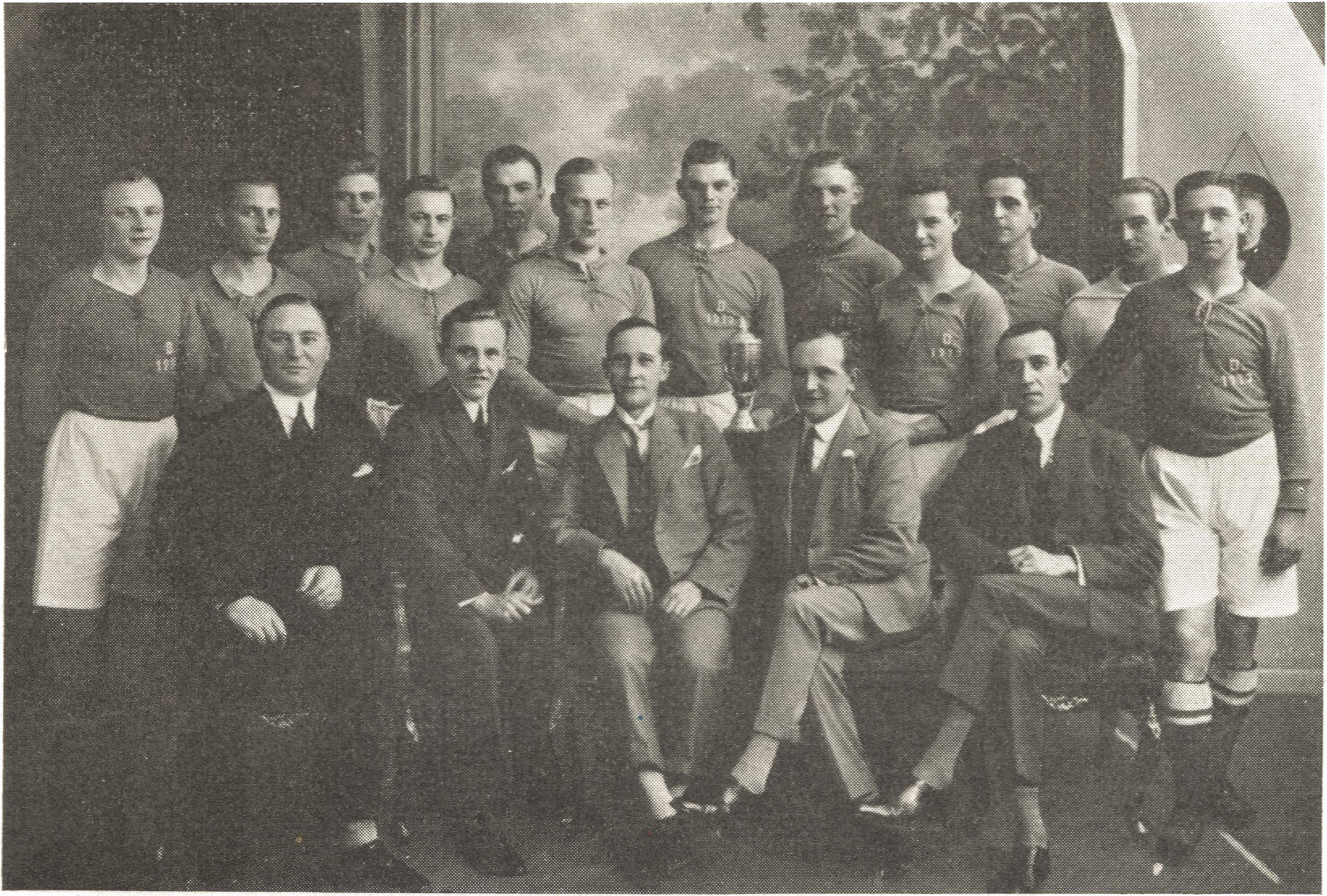 Team line-up and board members of Boldklubben 1913 — Group photo of the first team players and board members of the club in 1928.